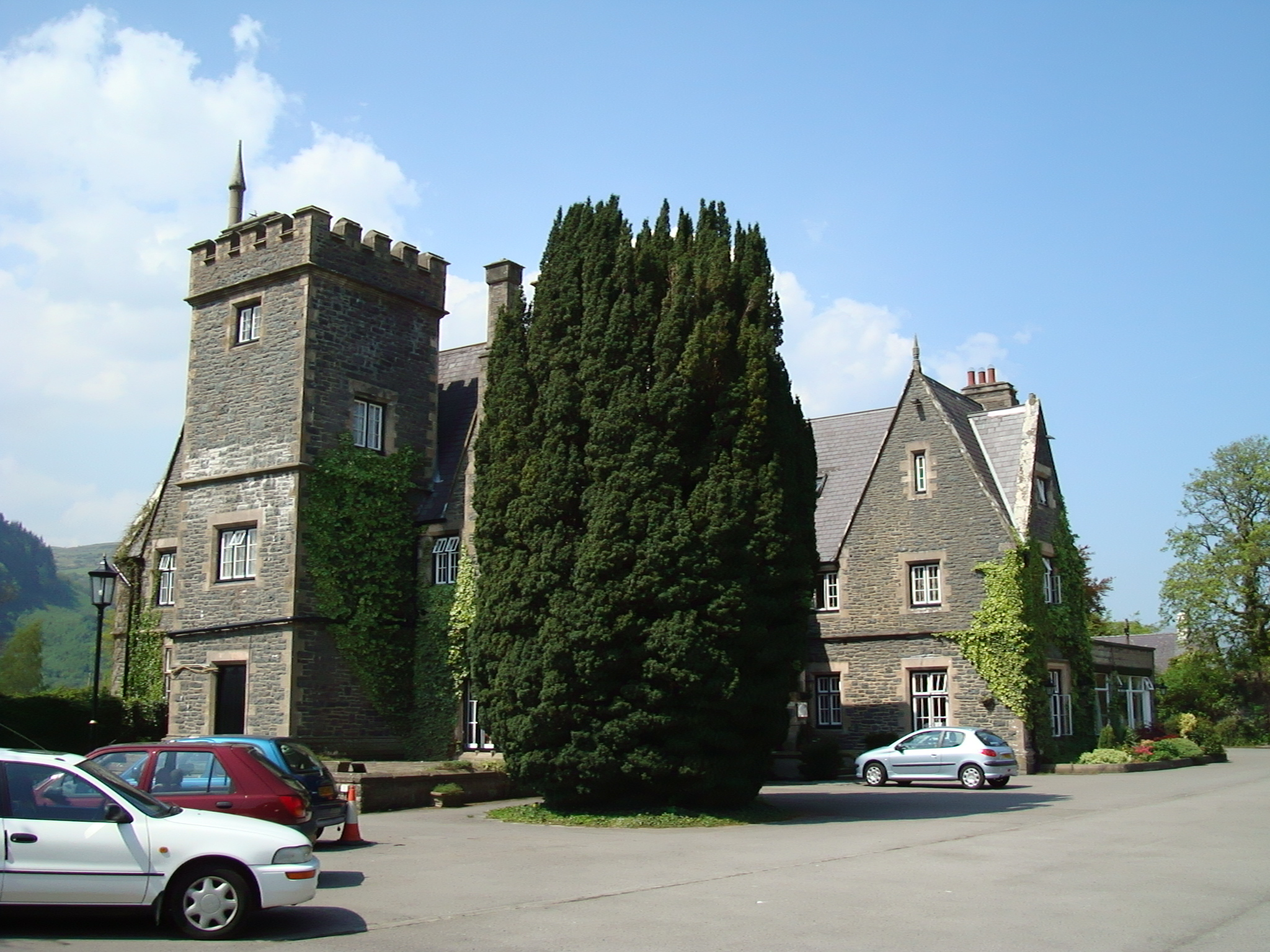 Photograph of the location of Maenan Abbey, Conwy County Borough, Wales, in the grounds of the Maenan Abbey Hotel